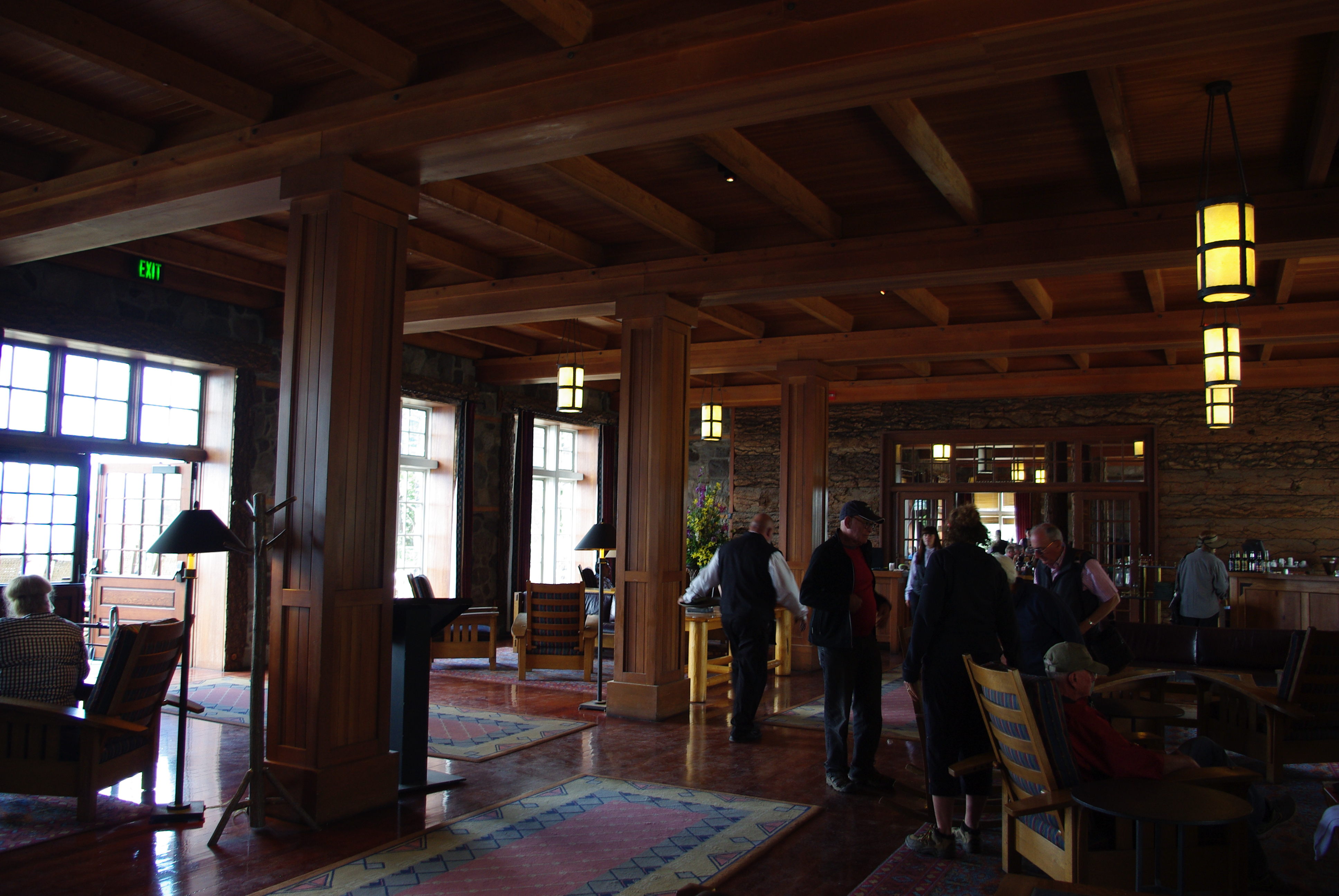 Interior of Crater Lake Lodge